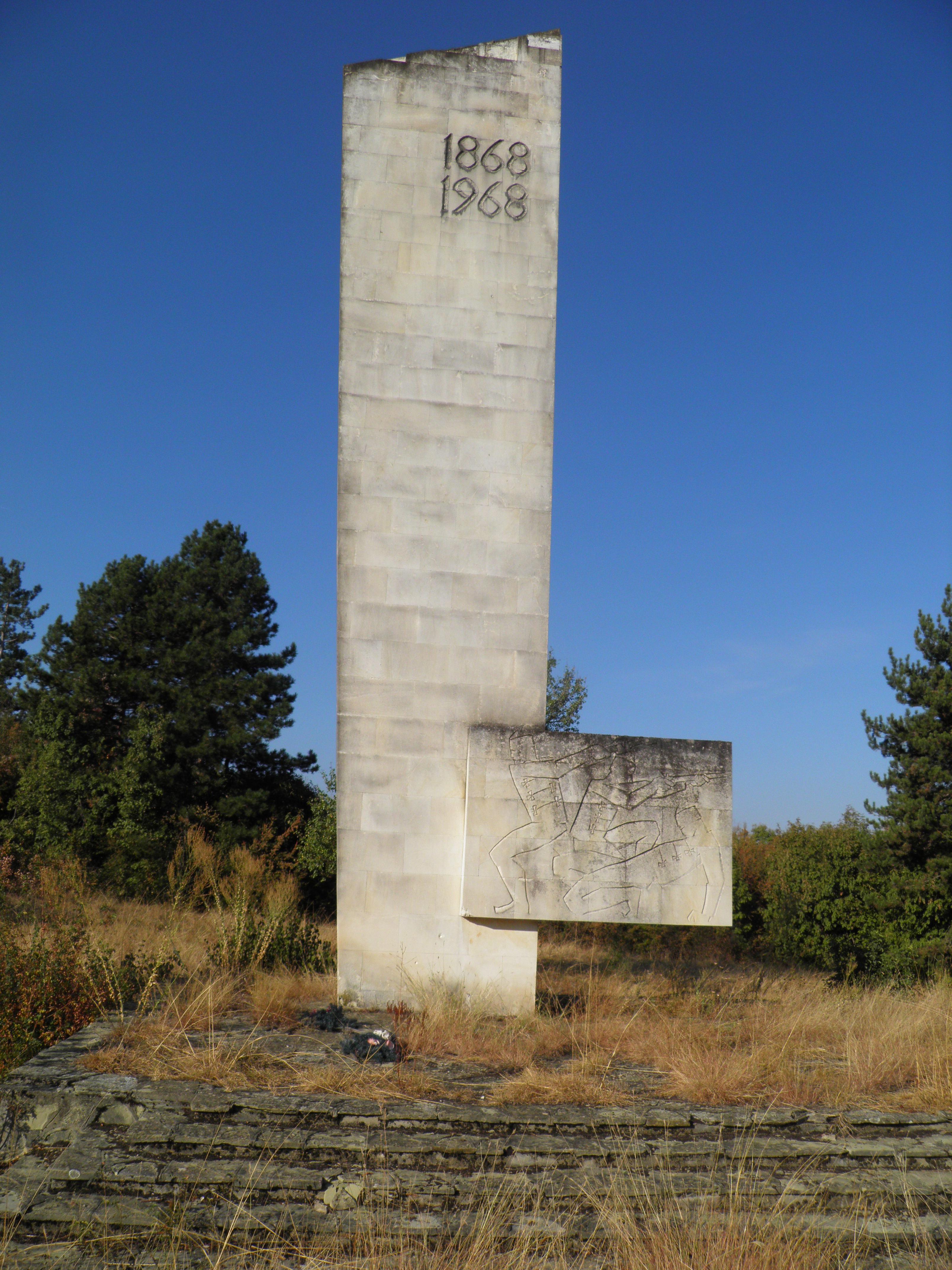 Monument of Stefan Karadzha and Hadzhi Dimitar`s army in Dalgi dol,Vishovgrad